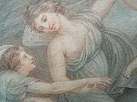 Detail of original engraving "The Hours" by Francesco Bartolozzi showing delicacy of the hands of the nymphs